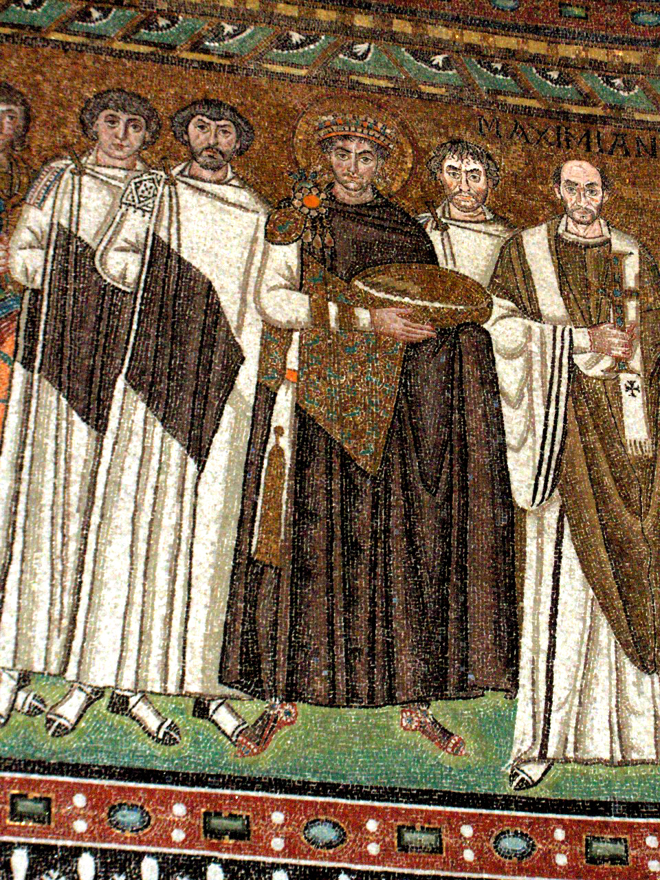 Court of Emperor Justinian with (right) archbishop Maximian and (left) court officials and Praetorian Guards; Basilica of San Vitale in Ravenna, Italy.